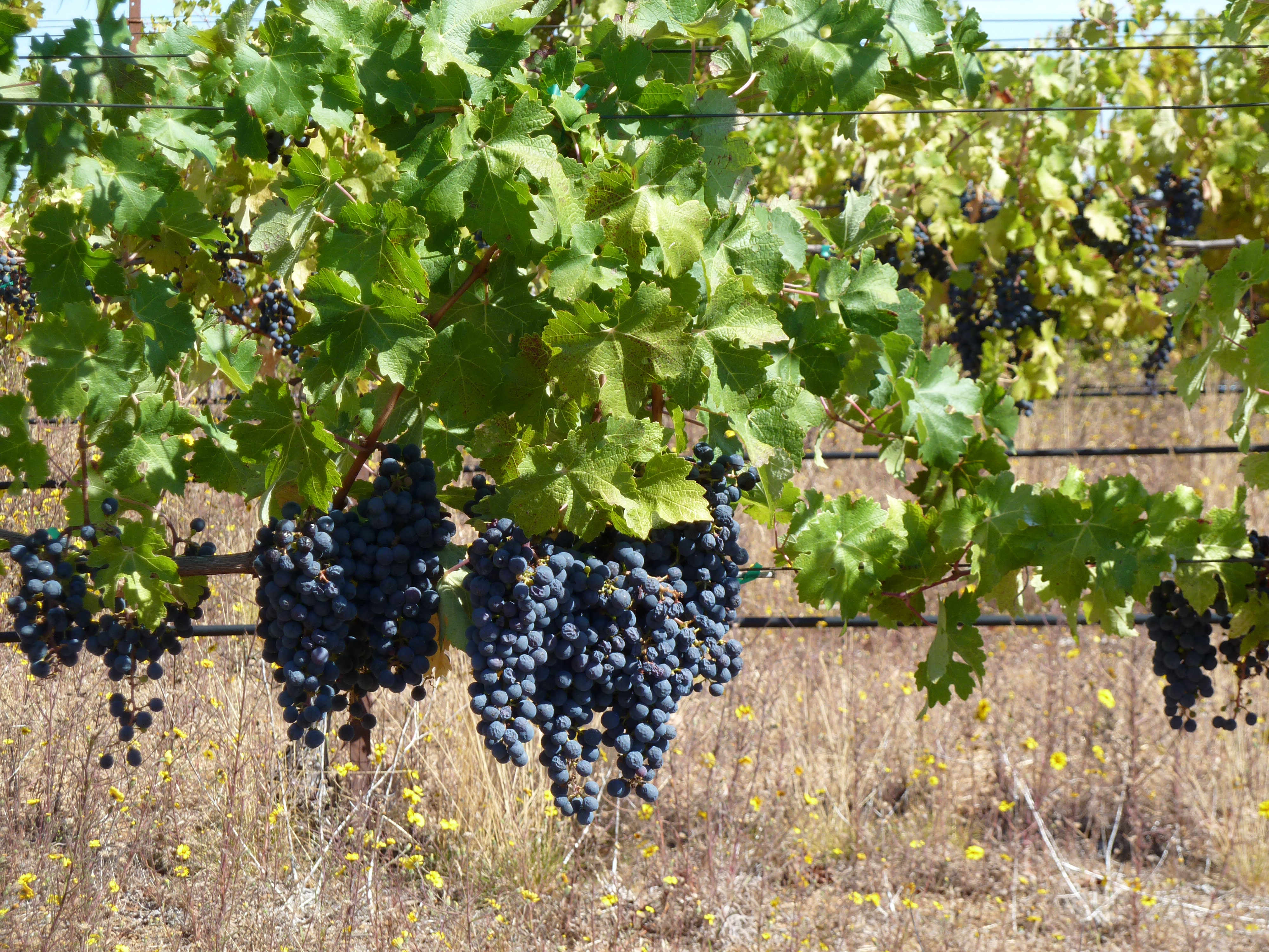 Cabernet Sauvignon growing in the Monte Bello vineyard in Santa Cruz Mountain AVA of the California winery Ridge Vineyards.